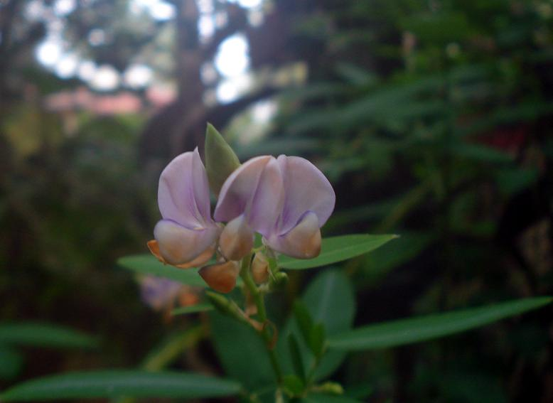 Name : Desmodium gyrans Family : Fabaceae